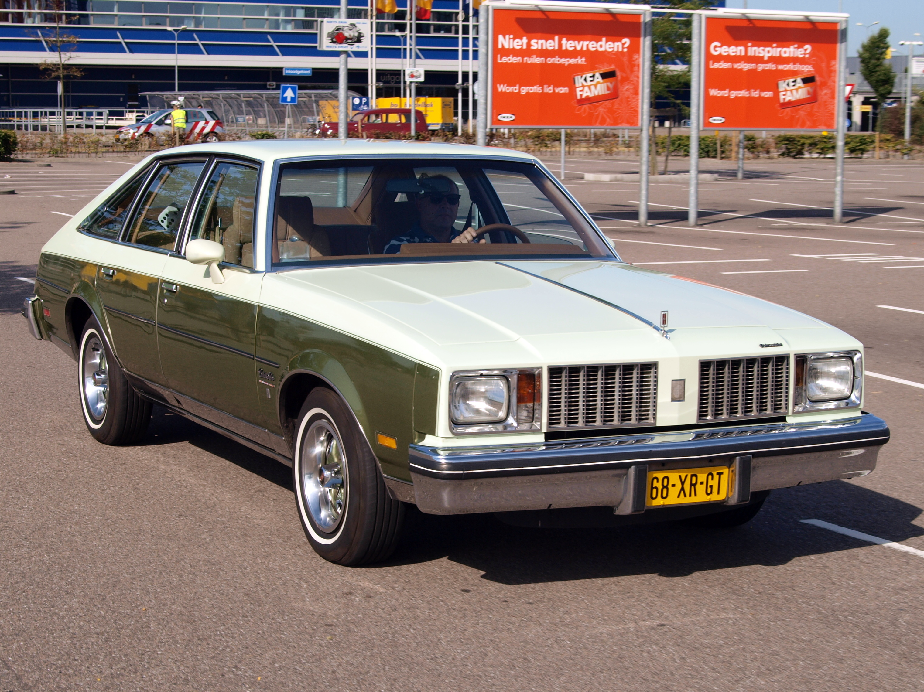 Oldsmobile Cutlass Salon 68-XR-GT